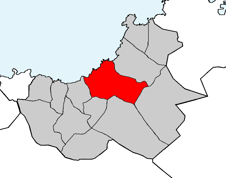 Location of the parish of Arteixo in the municipality of Arteixo (Galicia, Spain)